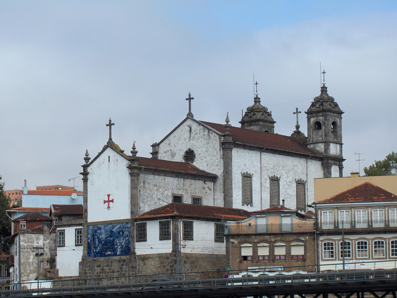 Church of Corpo Santo de Massarelos, in civil parish of Massarelos, Porto, Portugal (as seen from the Douro river).